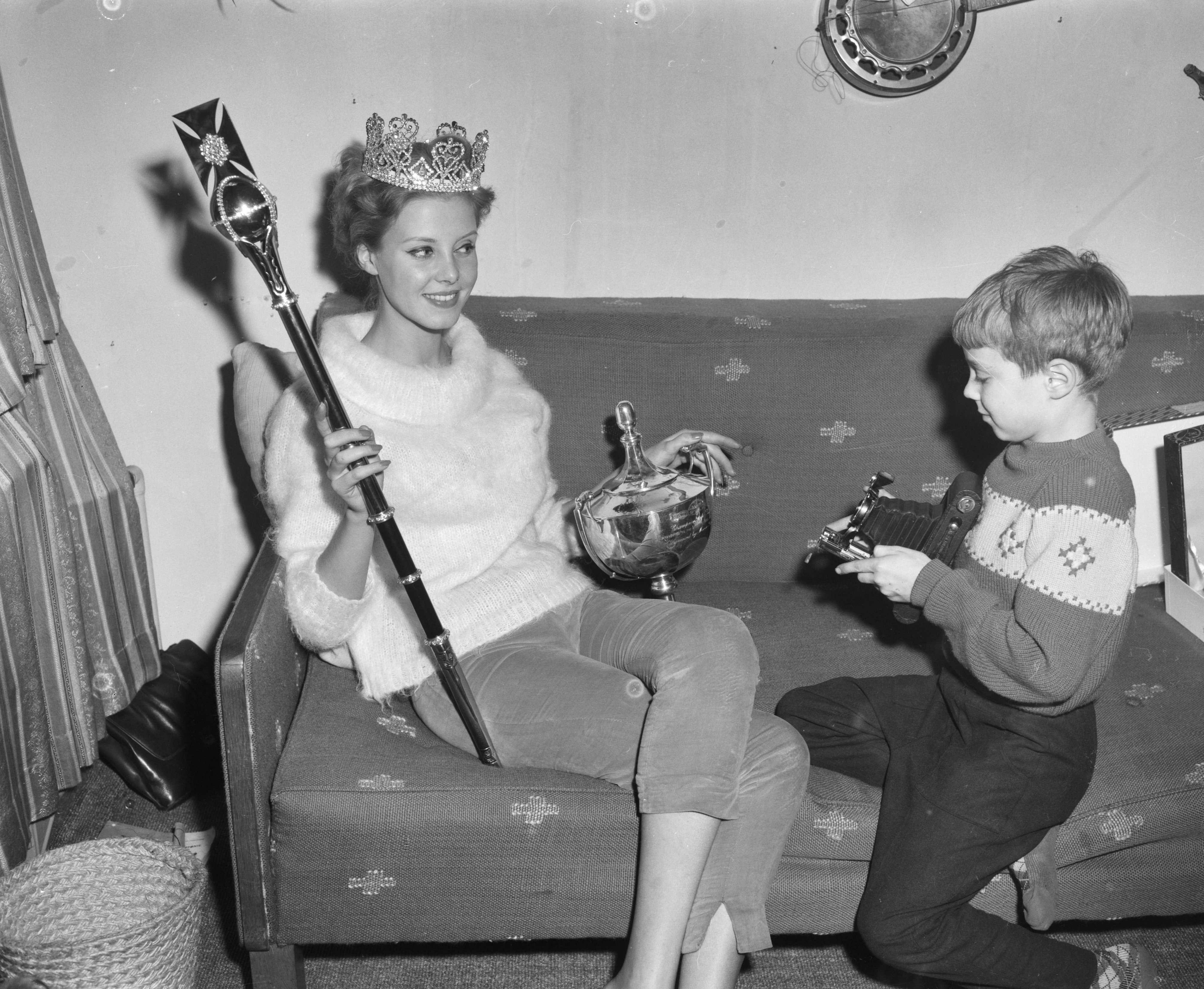 Miss World Corine Rottschäfer at home, with crown and staff, posing for her brother Jantje. 13 November 1959